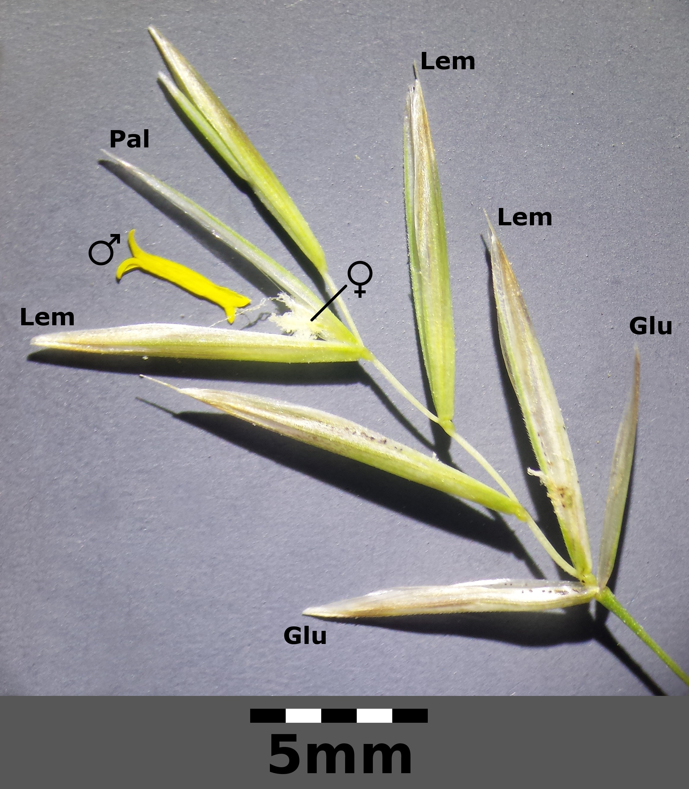 Spikelet, Glu = Gluma, Lem = Lemma, Pal = Palea Taxonym: Bromus inermis ss Fischer et al. EfÖLS 2008 ISBN 978-3-85474-187-9 Location: Neue Donau, Vienna-Floridsdorf - ca. 160 m a.s.l. Habitat: dry meadows